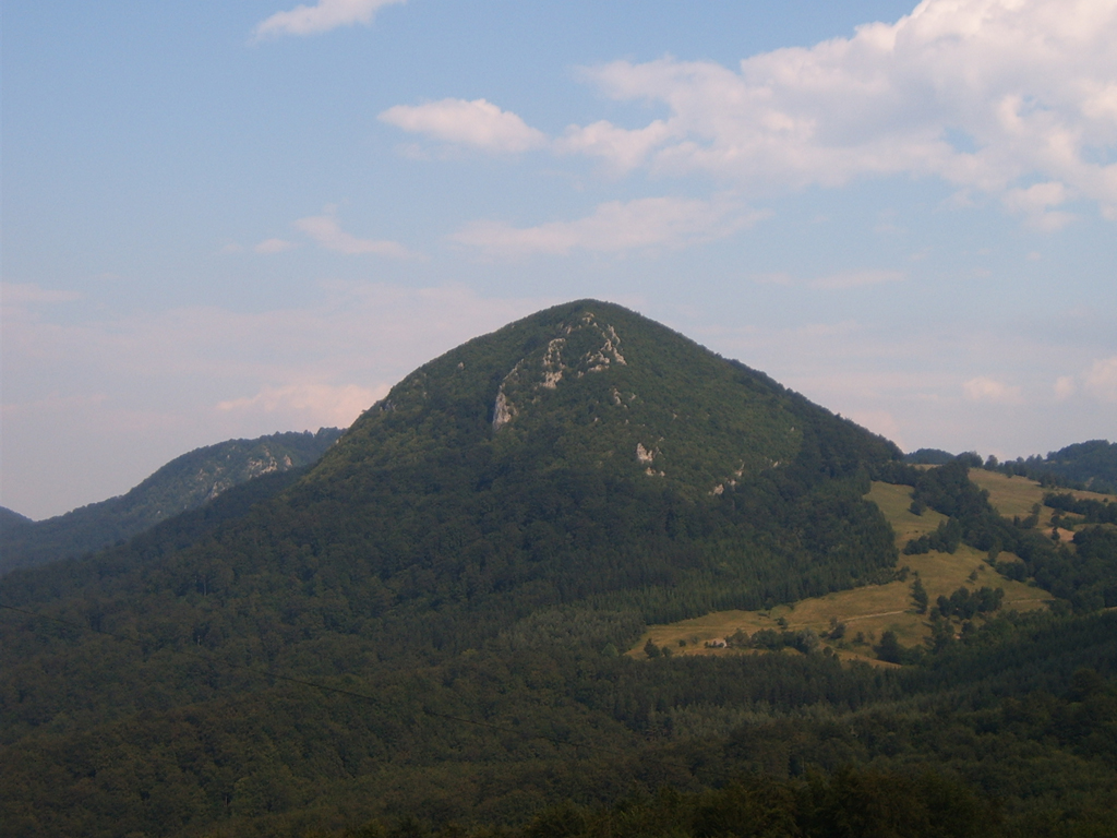 Mali Povlen, near Valjevo